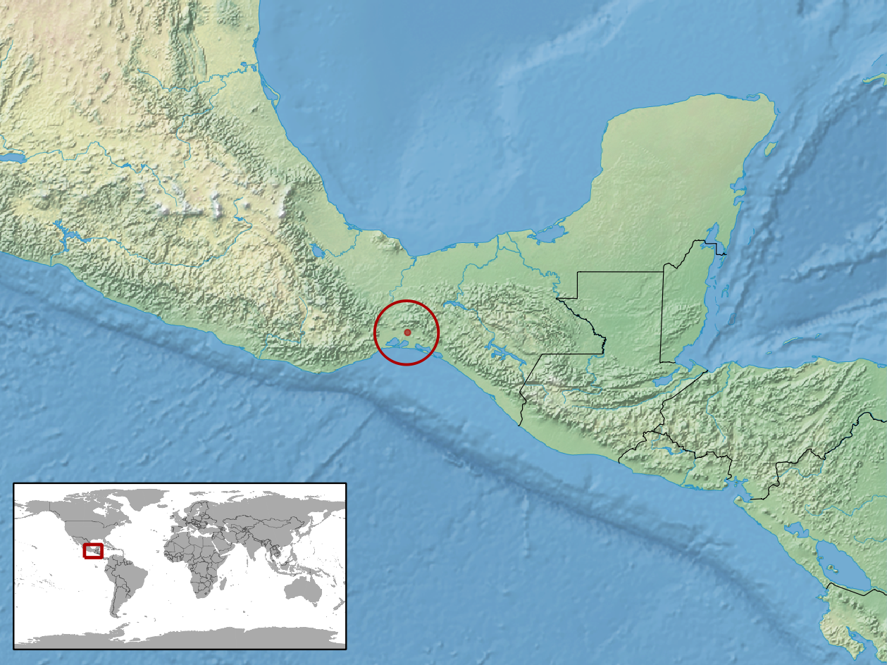 geographic distribution of Ficimia ramirezi (Native: Mexico)